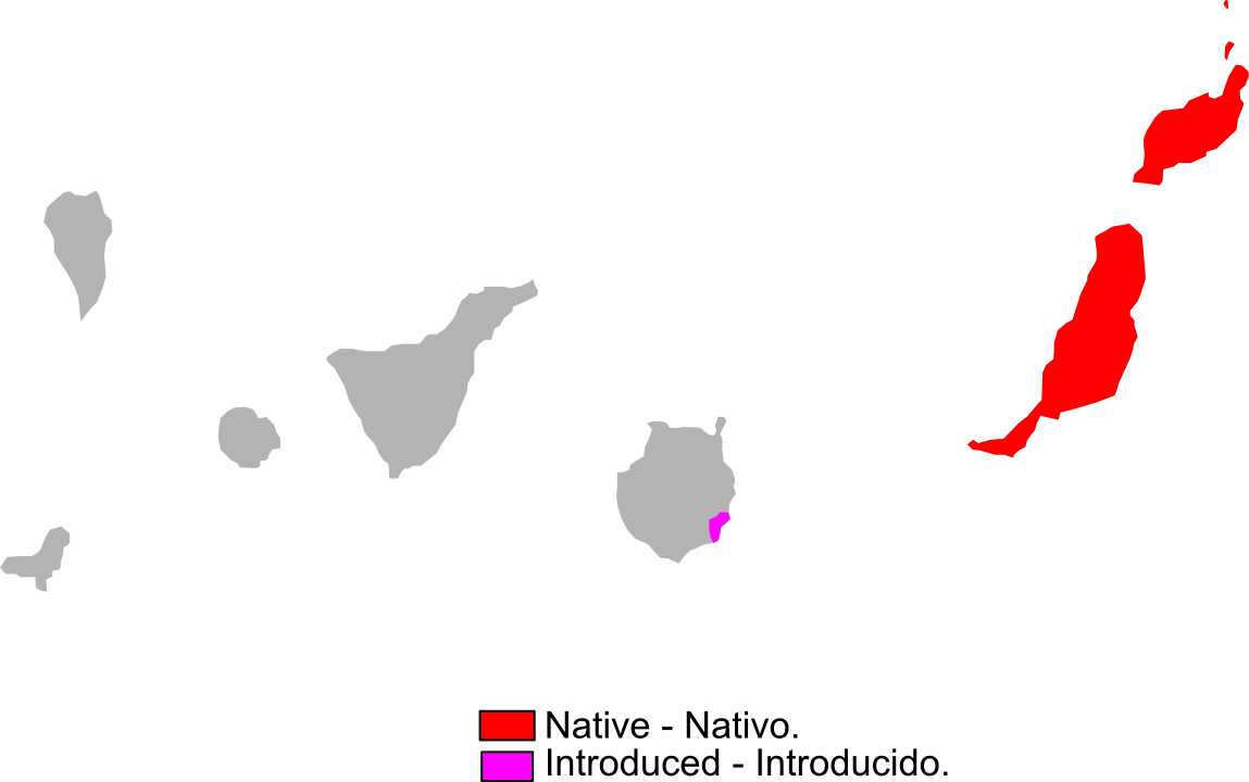 Gallotia atlantica distribution map.